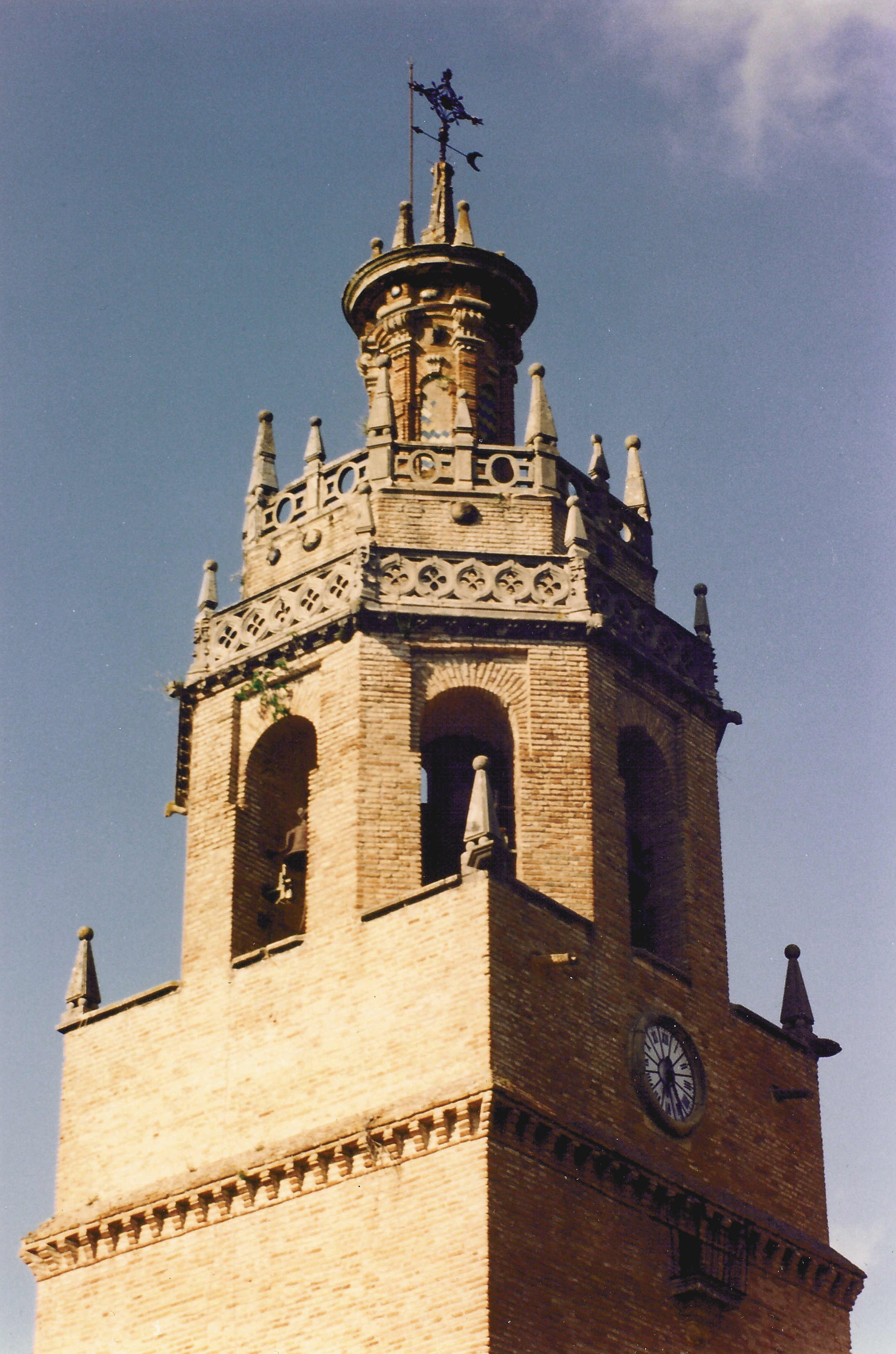 Tower of the Church of Santa Maria la Mayor, Ronda, Andalusia, Spain.